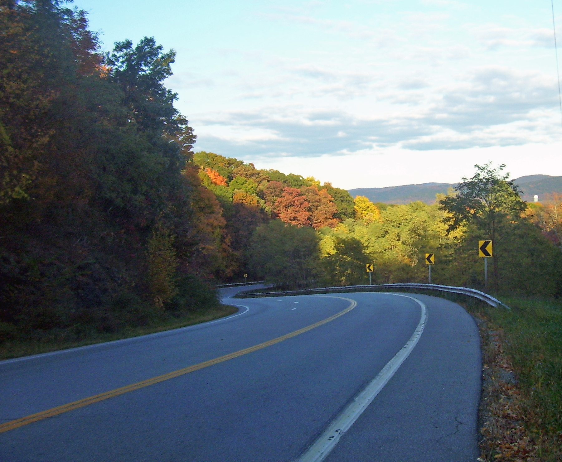 View east along NY 343 southeast of Millbrook.